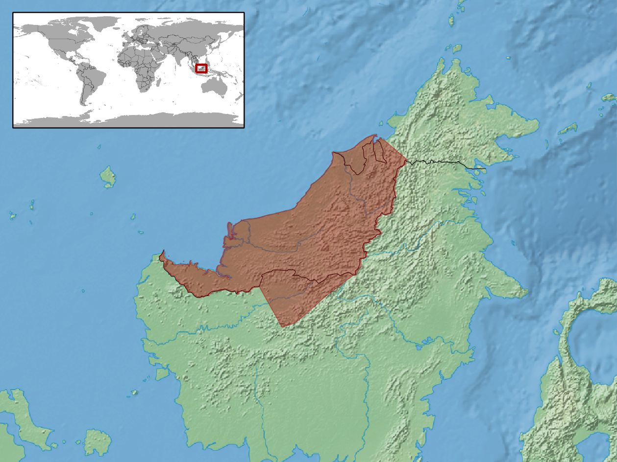 geographic distribution of Calamaria borneensis (Native: Brunei Darussalam; Indonesia (Kalimantan); Malaysia (Sabah, Sarawak))